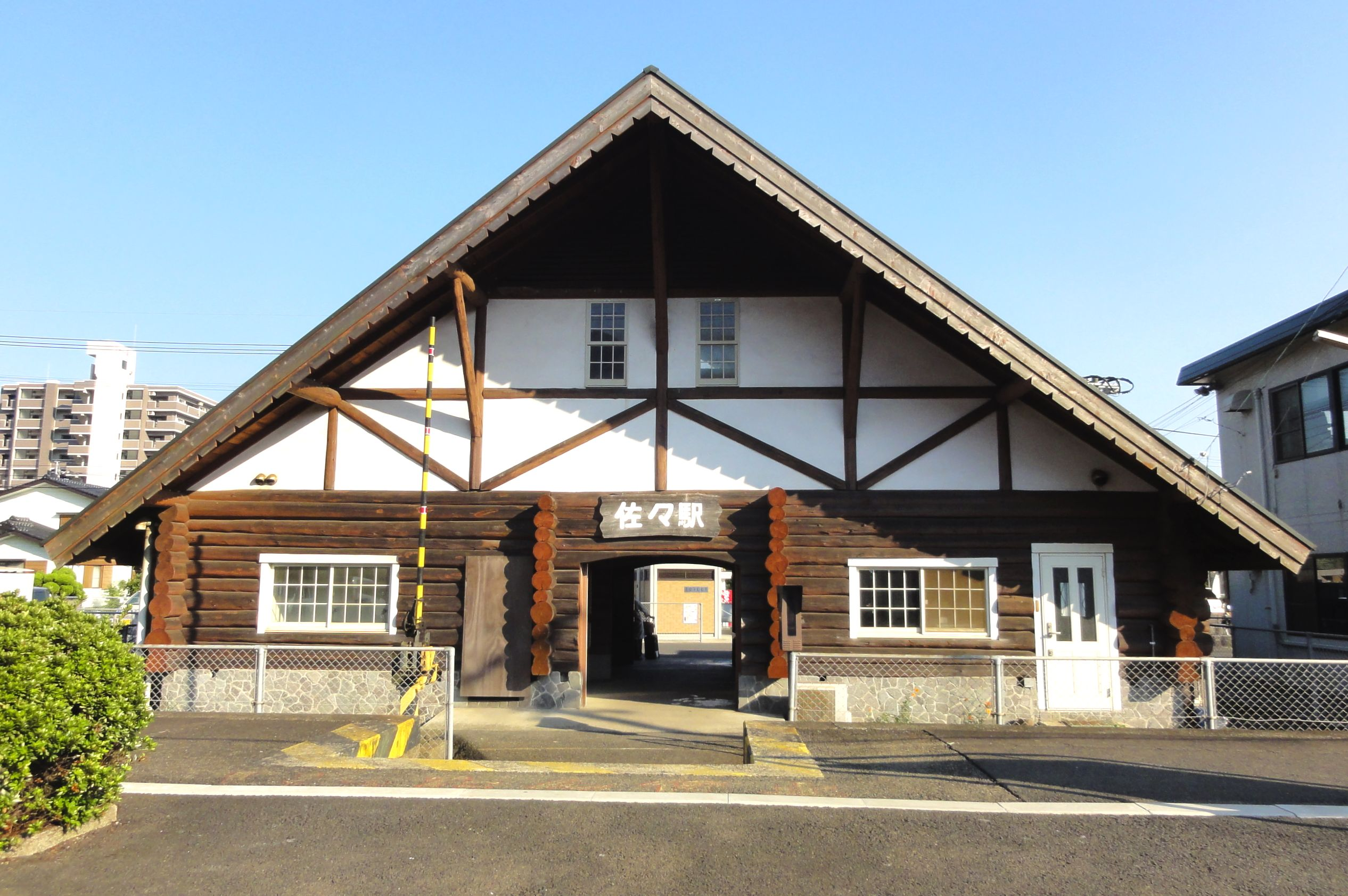 Matsuura Railway Saza Station